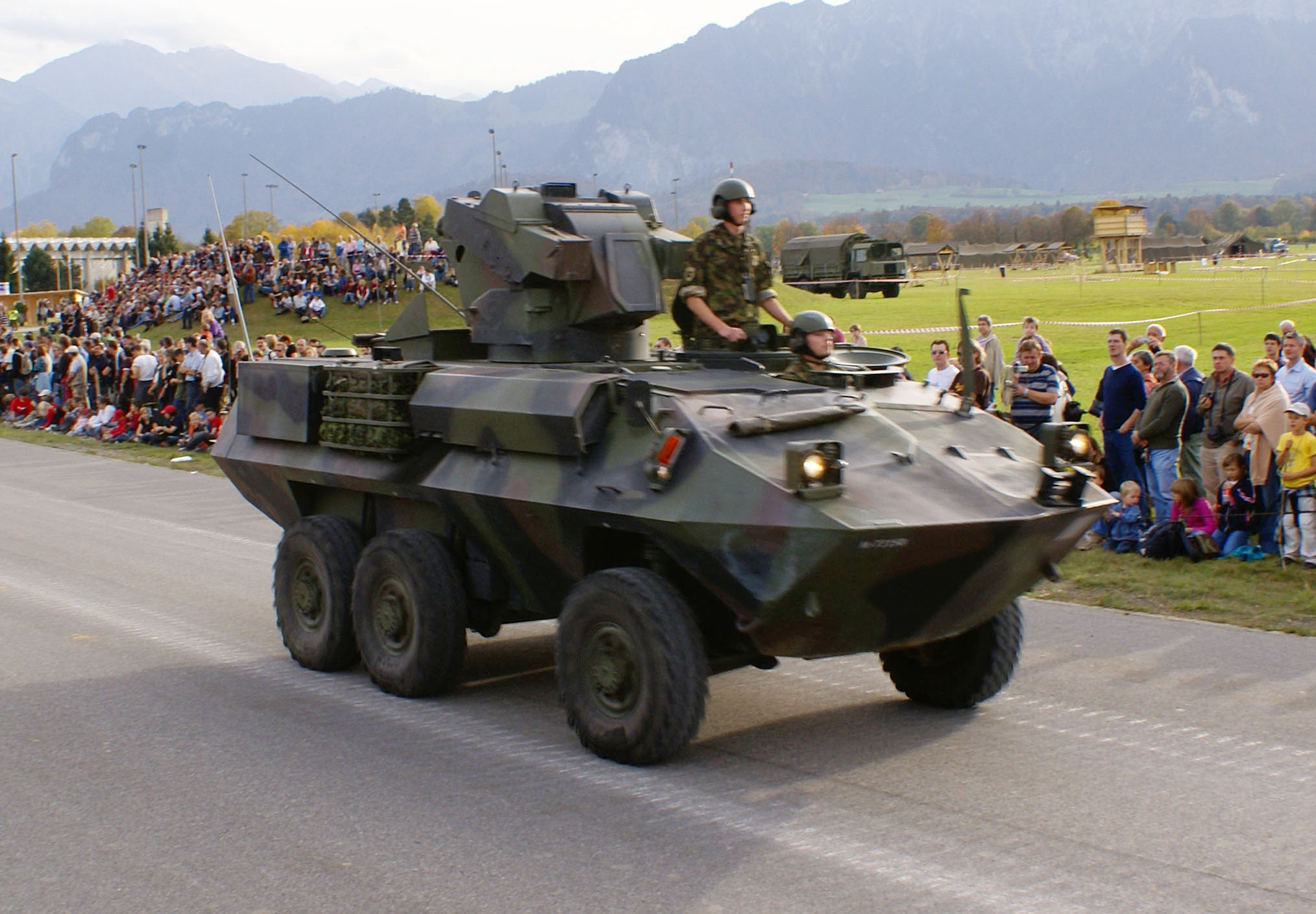 Swiss Army. MOWAG Piranha tank destroyer. Participating in the "Steel Parade" of the 2006 Army Days, Thun.